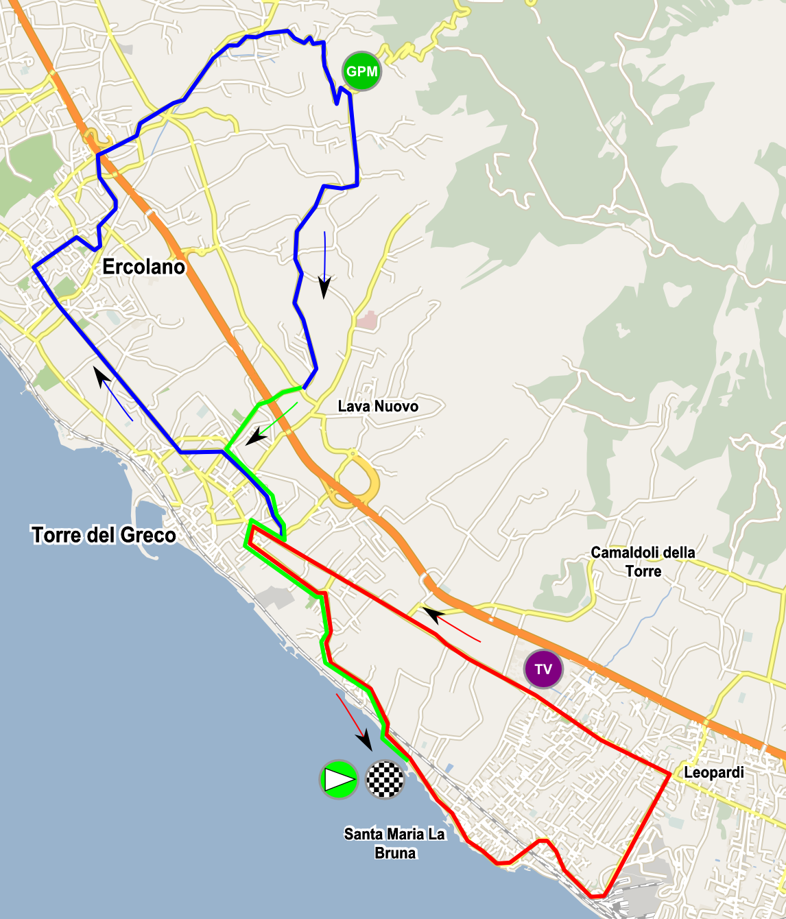 Map of stage 10 of Giro donne 2017.